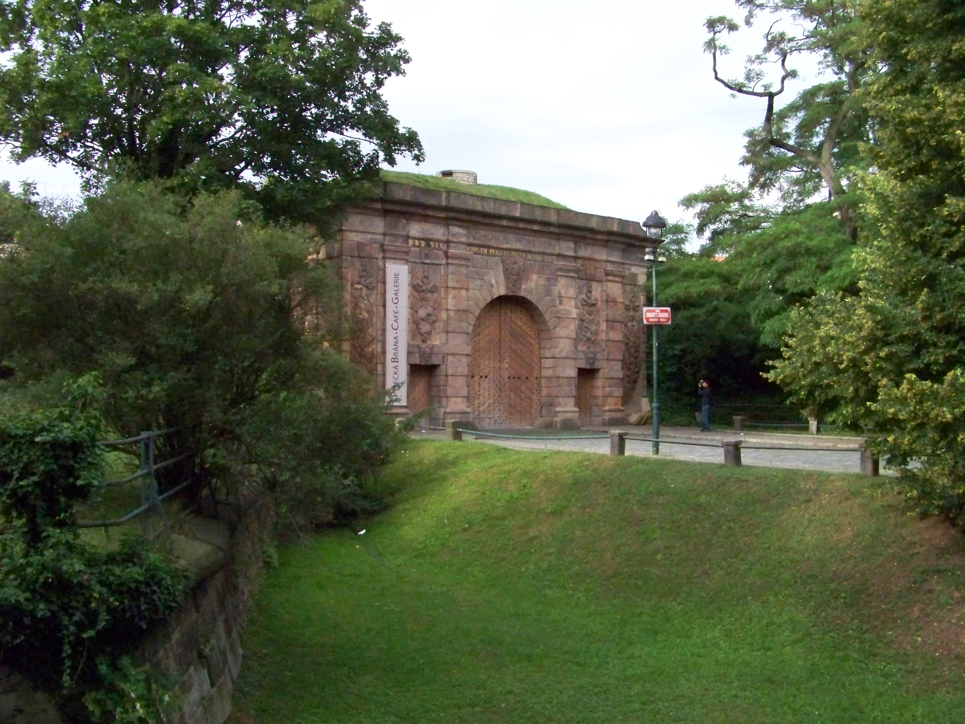 Prague-Hradčany, the Czech Republic. Charlotte Garrigue Masaryk Park, Písek Gate. - OpenStreetMap(Info)